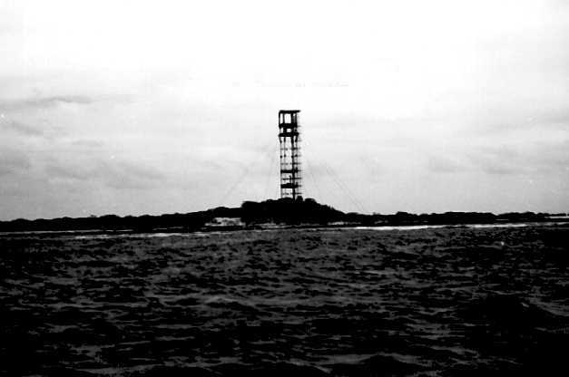 Nuclear test tower in Bikini Atoll